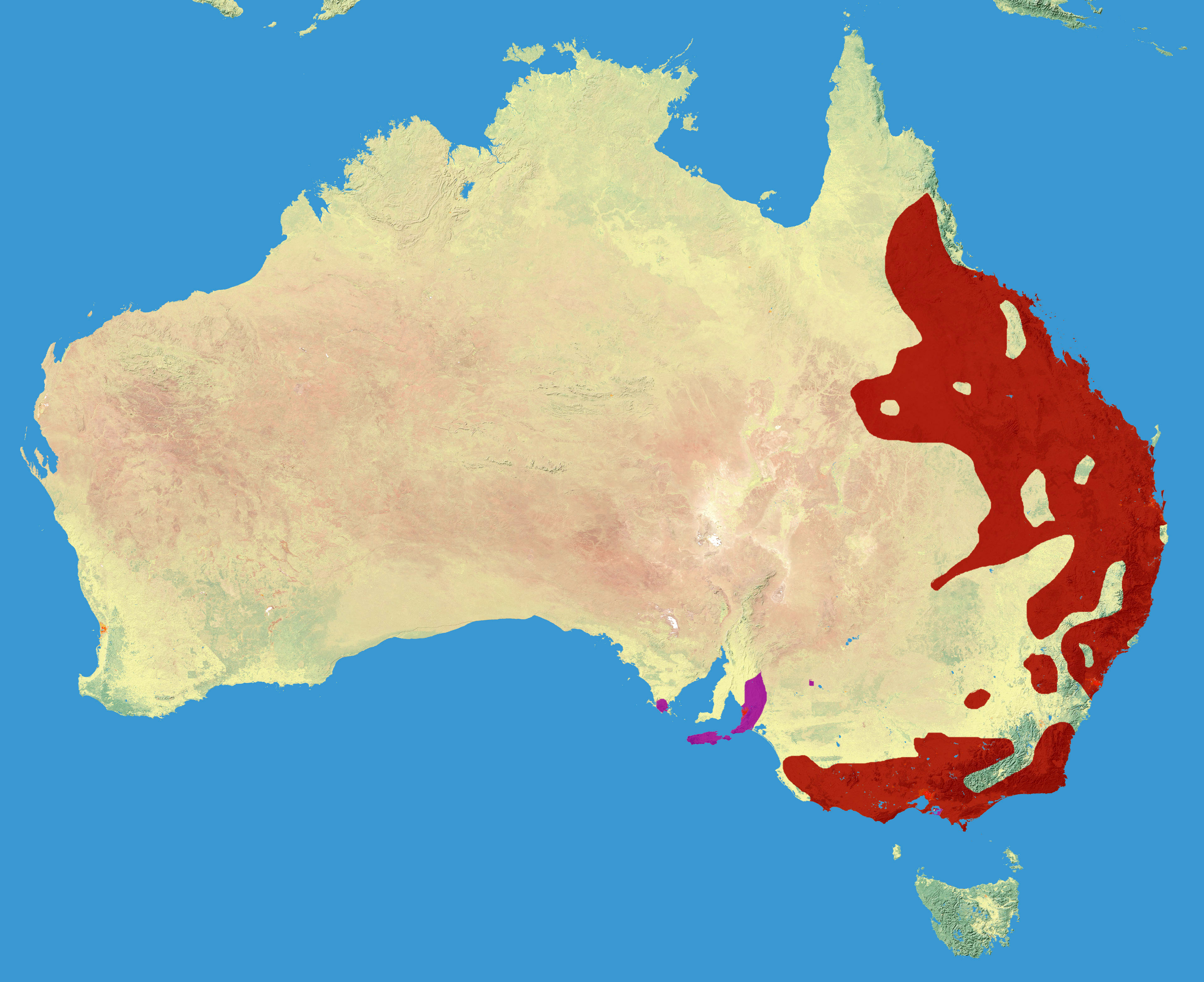 The Distribution of the Koala According to the IUCN